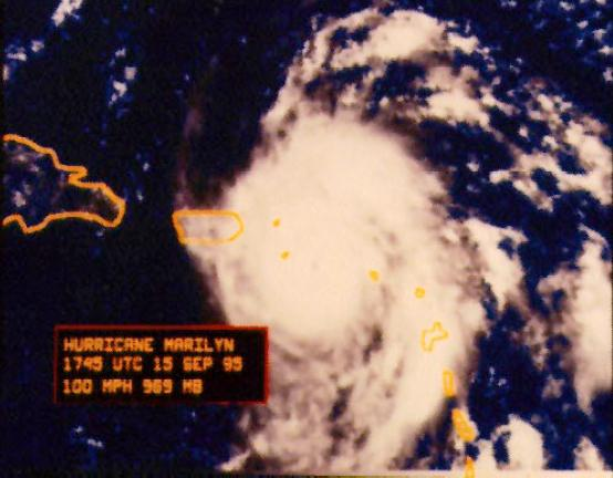 Hurricane Marylin in the Caribbean — on September 15, 1995.